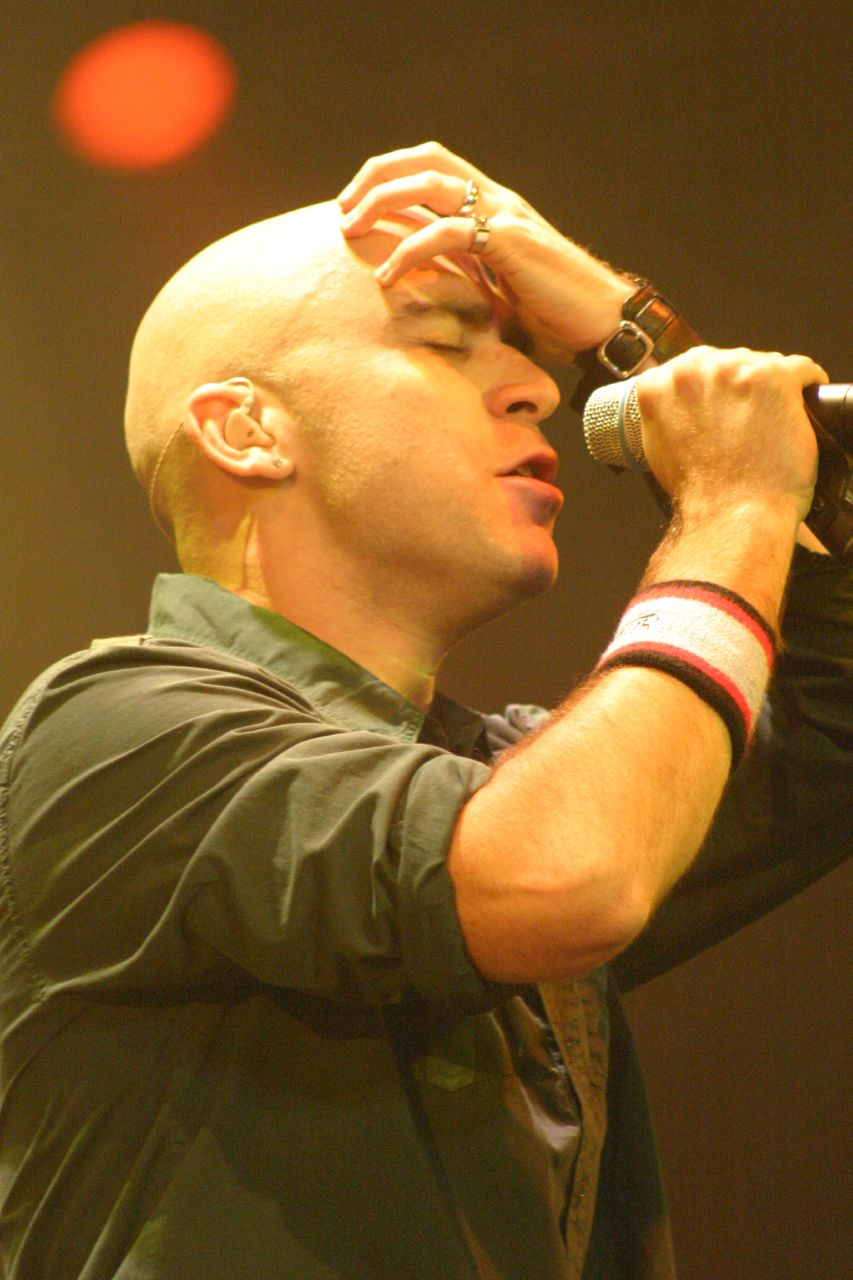 Ed Kowalczyk of the band Live, performing in concert.